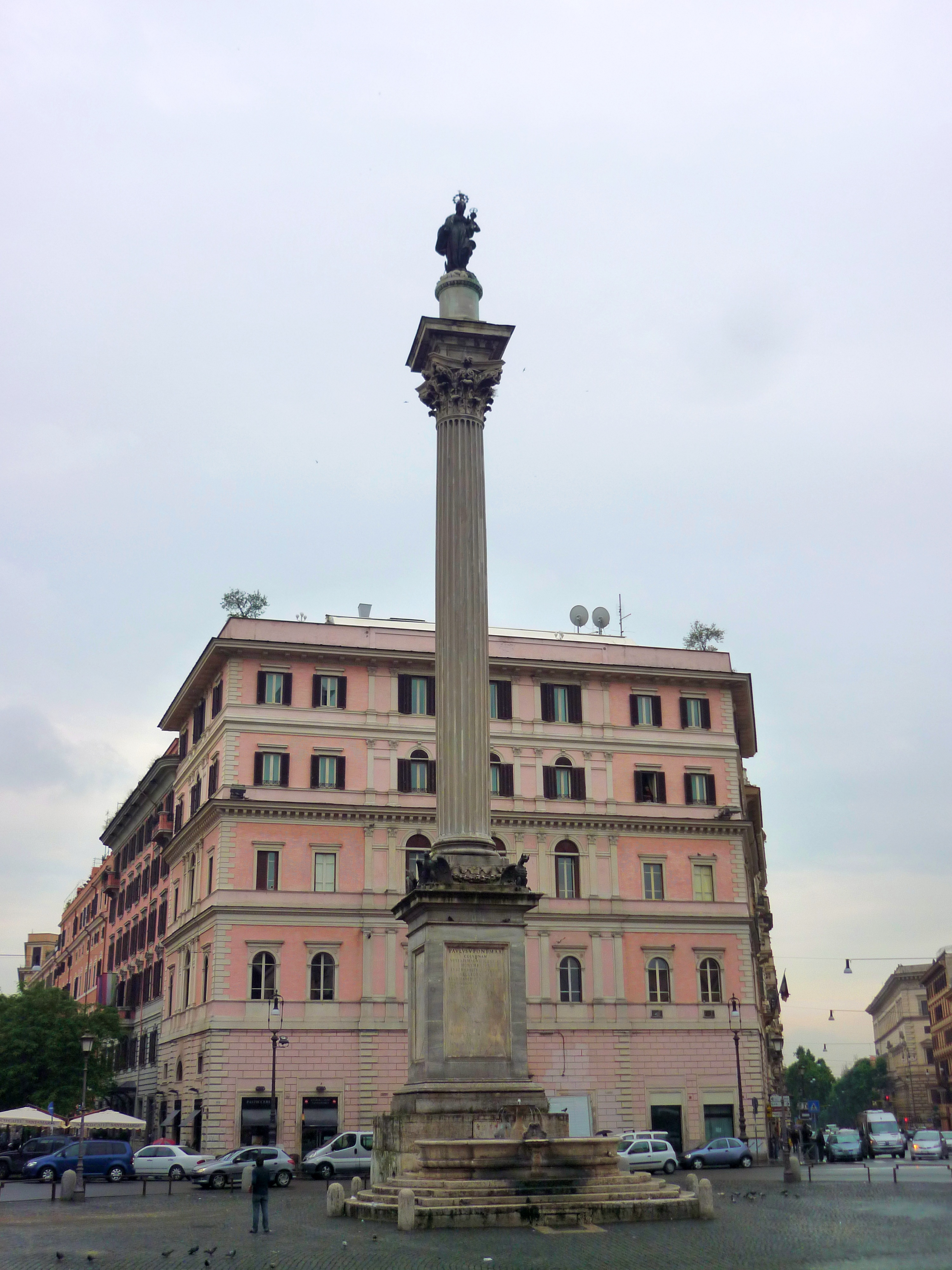 Column with the statue of the Holy Mary in the front of the Basilica Santa Maria Maggiore